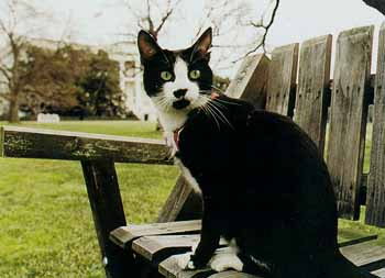 Socks, the pet cat of U.S. President Bill Clinton's family, photographed on the South Lawn of the White House.